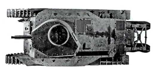 Top view of Type 89B Otsu (I-Go) medium tank of the Imperial Japanese Army.